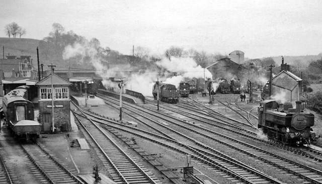 Yeovil Town Station, Yard and Locomotive Shed. View NE, towards Yeovil Pen Mill (Great Western to left) and Yeovil Junction (Southern Railway, to right). Joint SR and GW station, served by SR branch trains from Yeovil Junction and by GW trains from Yeovil Pen Mill - Taunton(behind camera). A GW 64XX 0-6-0 Pannier tank stands in the foreground; on the Shed can be discerned three SR Bulleid Light Pacifics and two SR 2-6-0s. The passenger service from Taunton ceased on 5/4/64, from Yeovil Junction on 3/10/66, goods was handled here until 6/5/68.